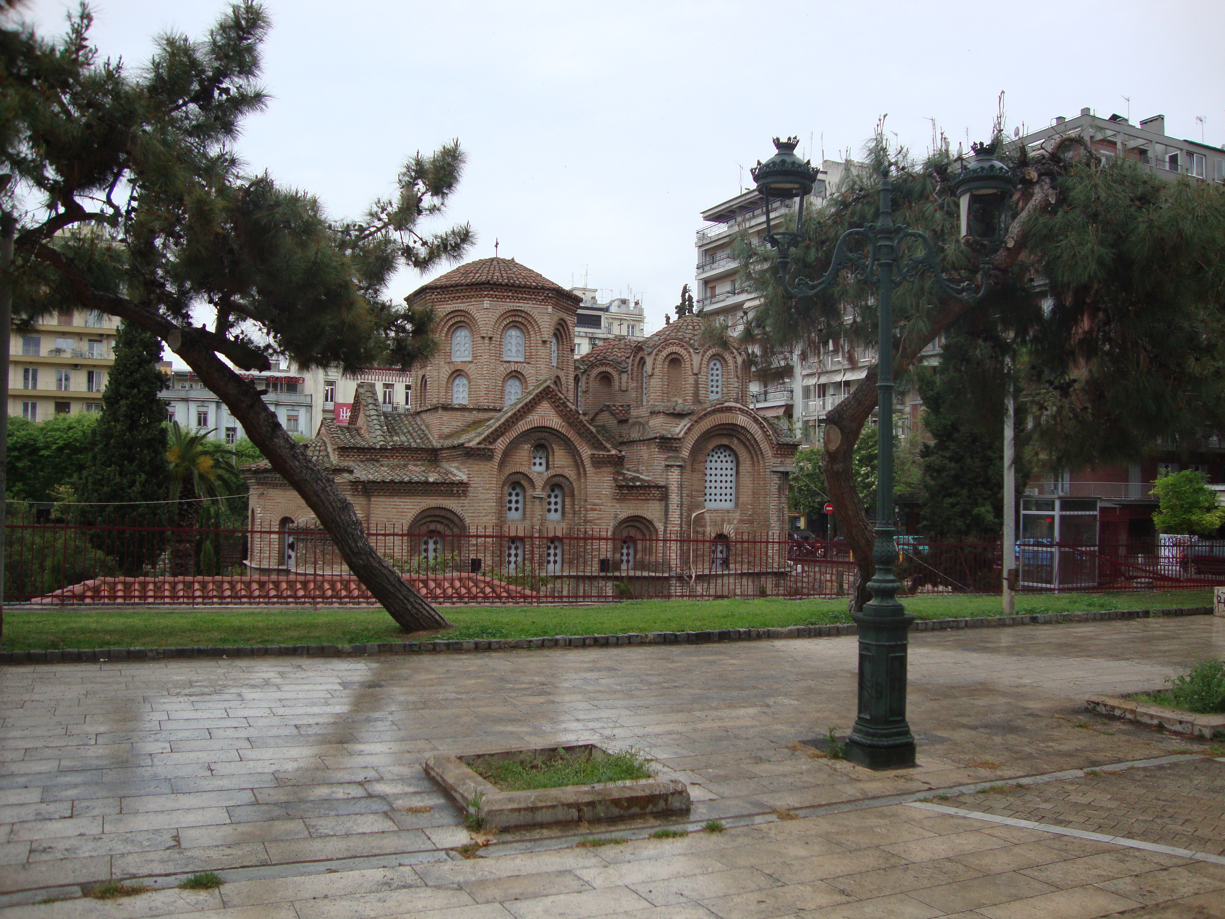 Thessalonikki, Macedonia, Greece